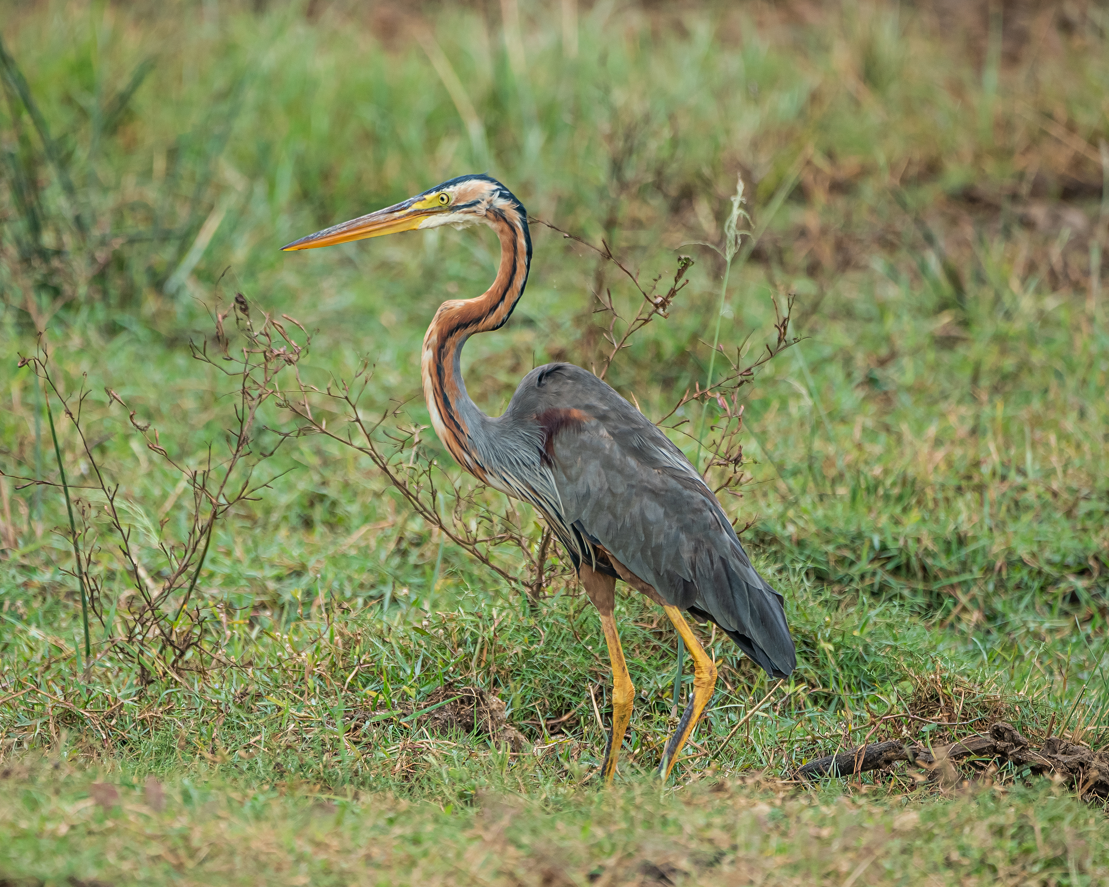 Purple Heron in Bundala National Park, Sri Lanka